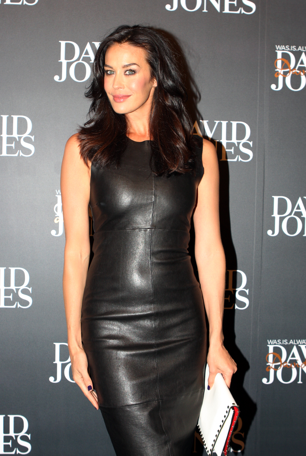 David Jones AW13 Fashion Launch: Sydney, Australia - 6th February 2013